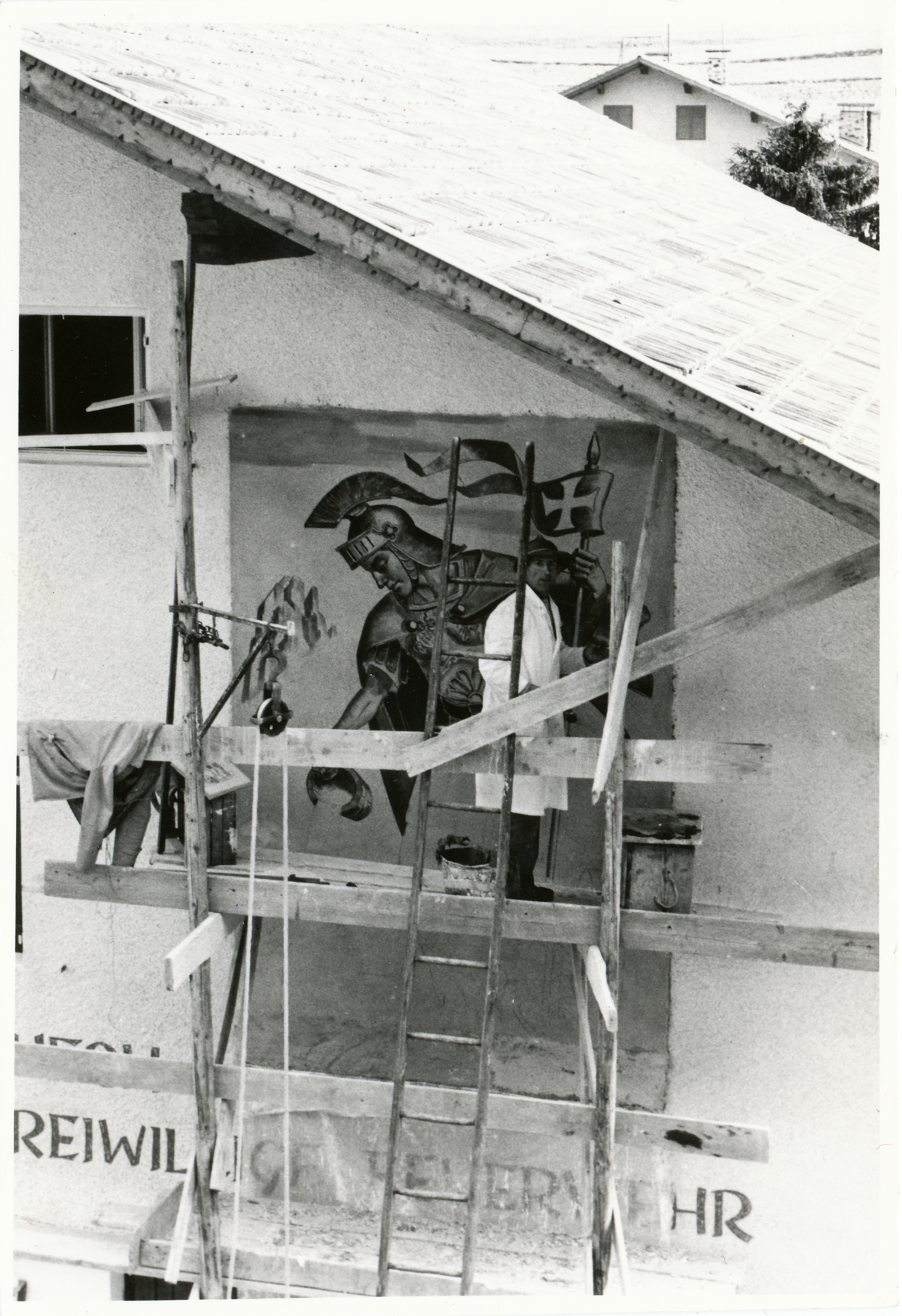 Foto by Alex Moroder =